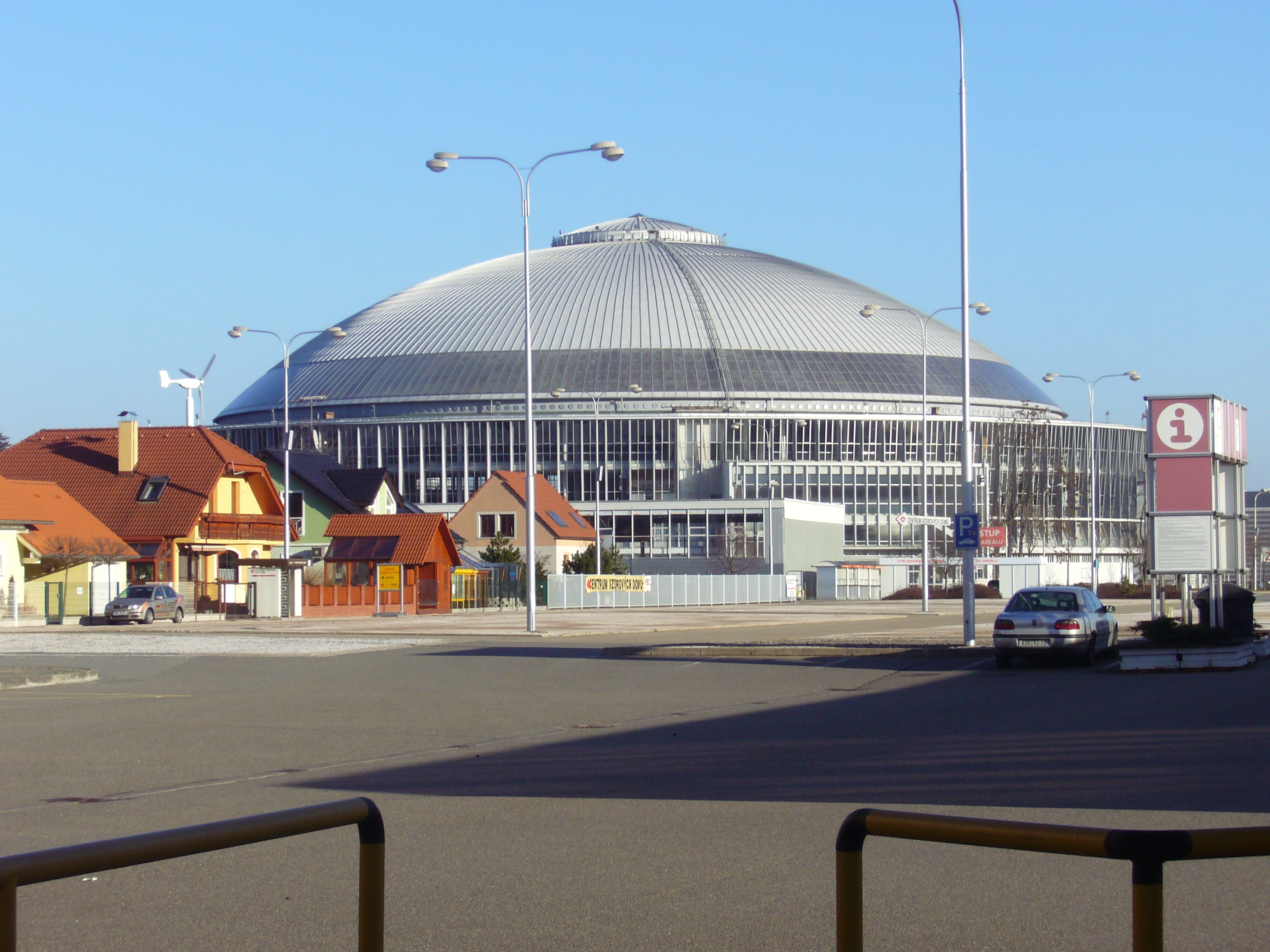 Brno fairground - pavilion "Z"